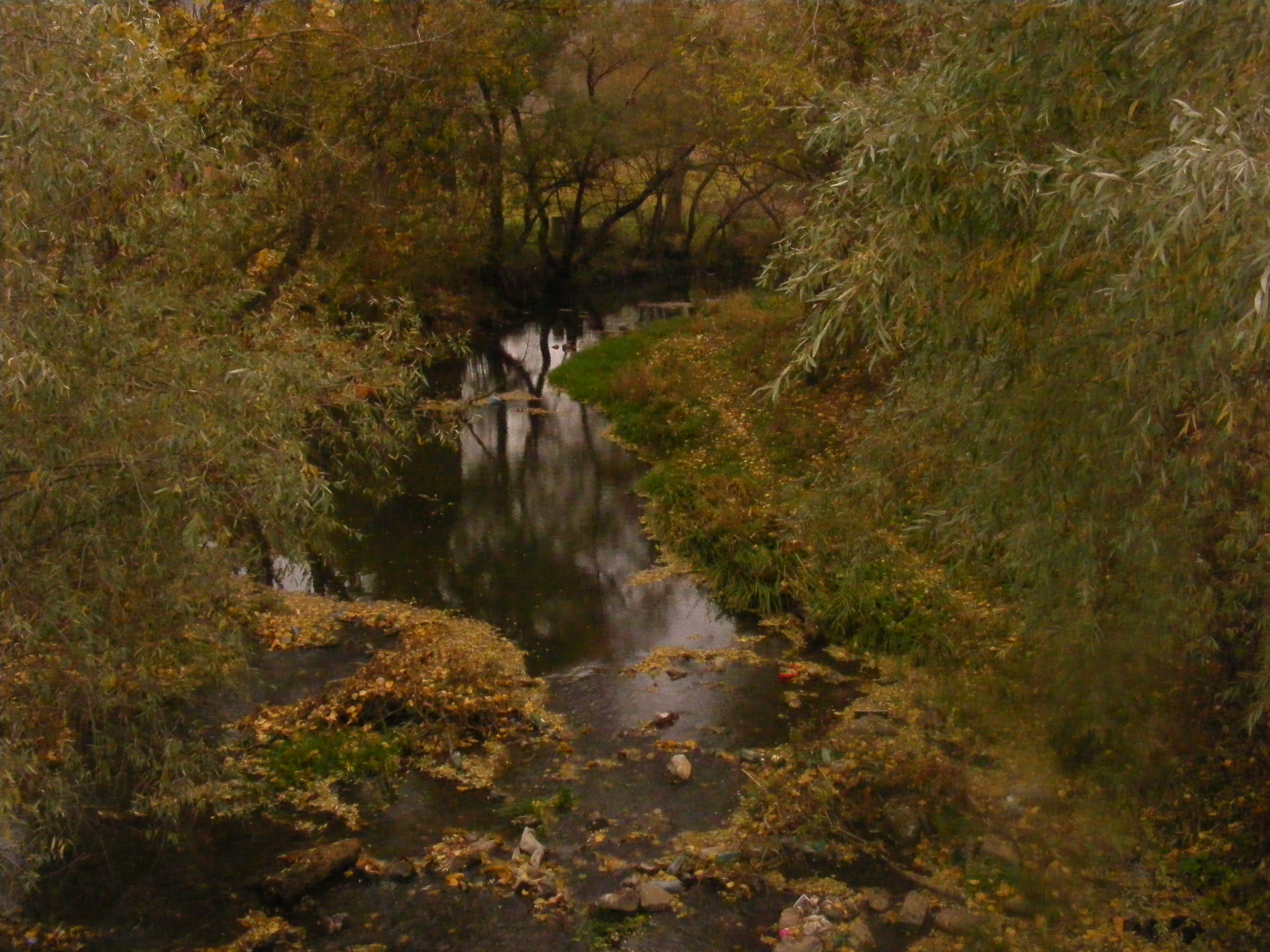 The Nádas-river near Suceagu (Szucság), Romania, Cluj County